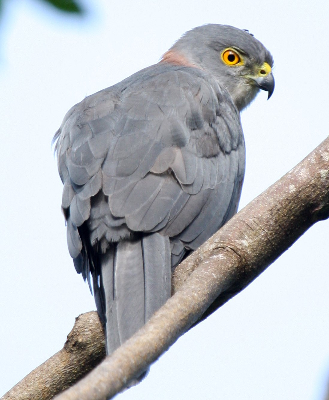 Fiji Goshawk (Accipiter rufitorques) Savusavu, Vanua Levu, Fiji Isles